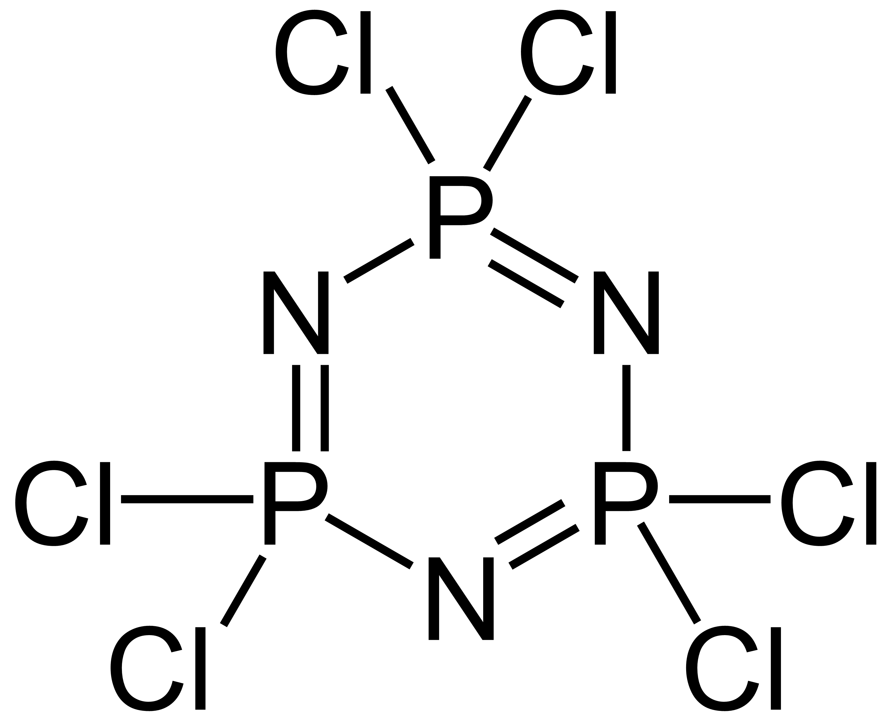 Structure of hexachlorophosphazene